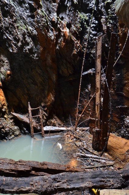 Llywernog Silver Lead Mine. This is the now flooded shaft, still with original ladders and pump rods/pipes. This was taken from the drainage adit.